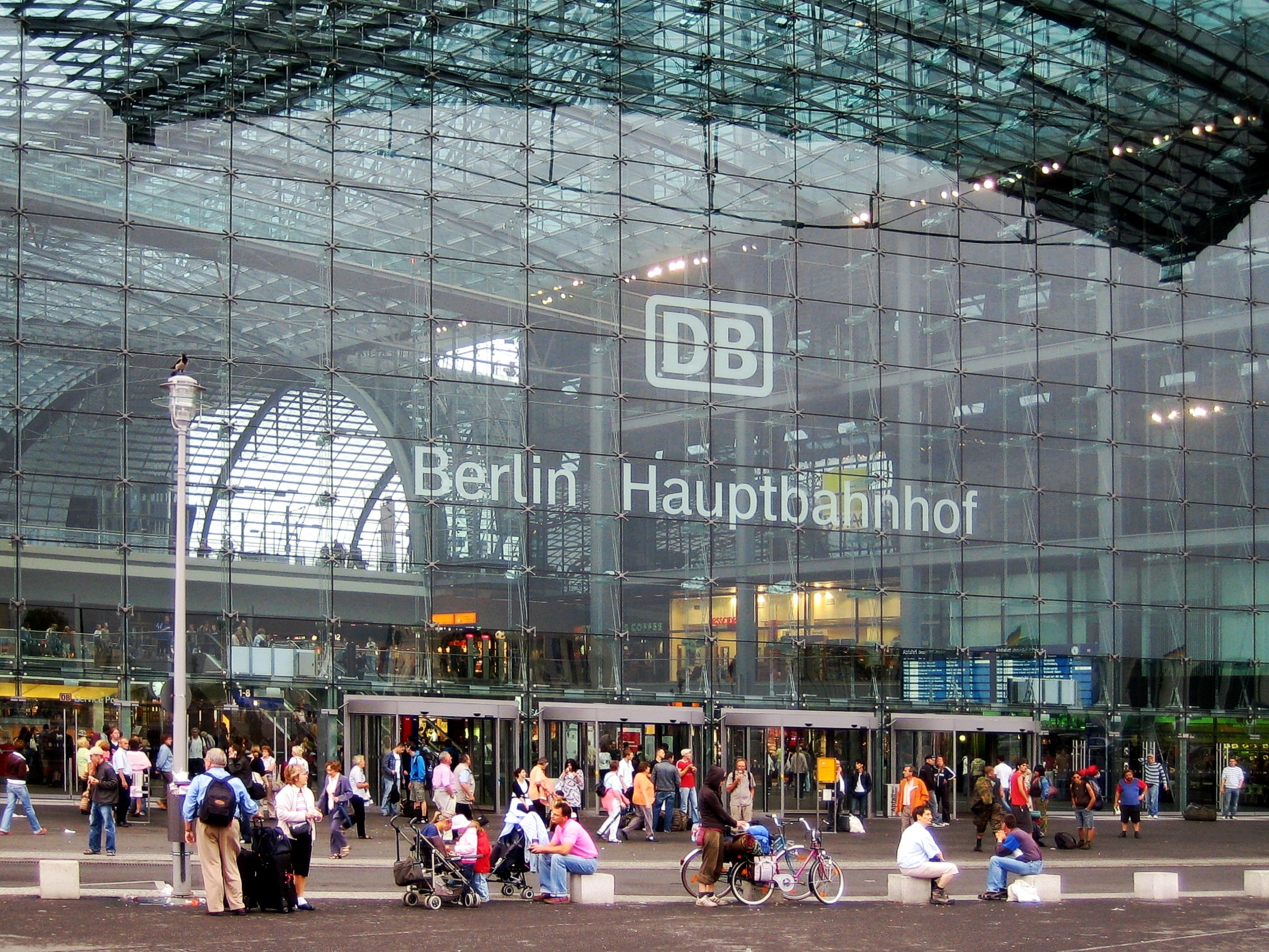 Berlin, Central Station, South entrance.